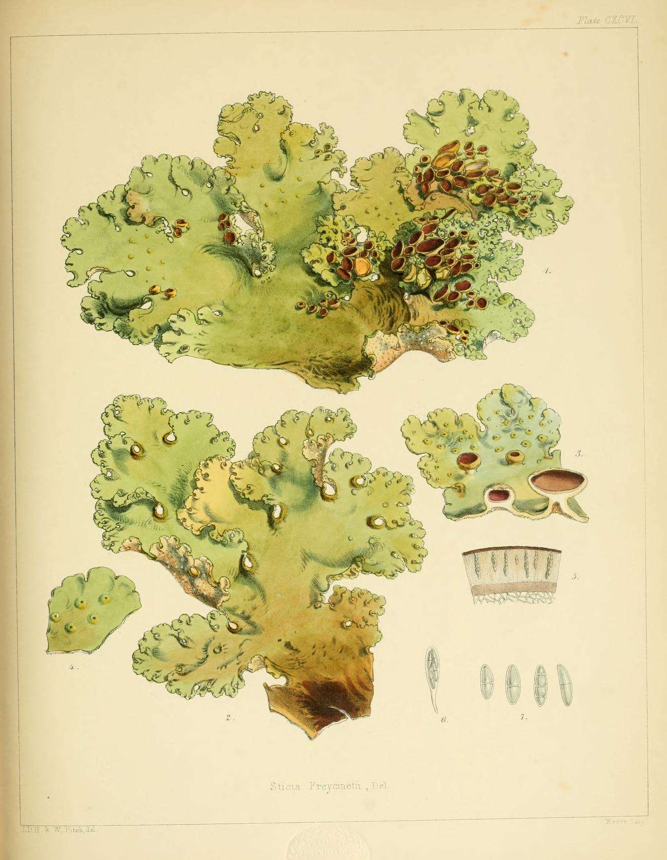 Illustration of Sticta freycinetii in Flora Antarctica. Drawn and engraved by Walter Hood Fitch.